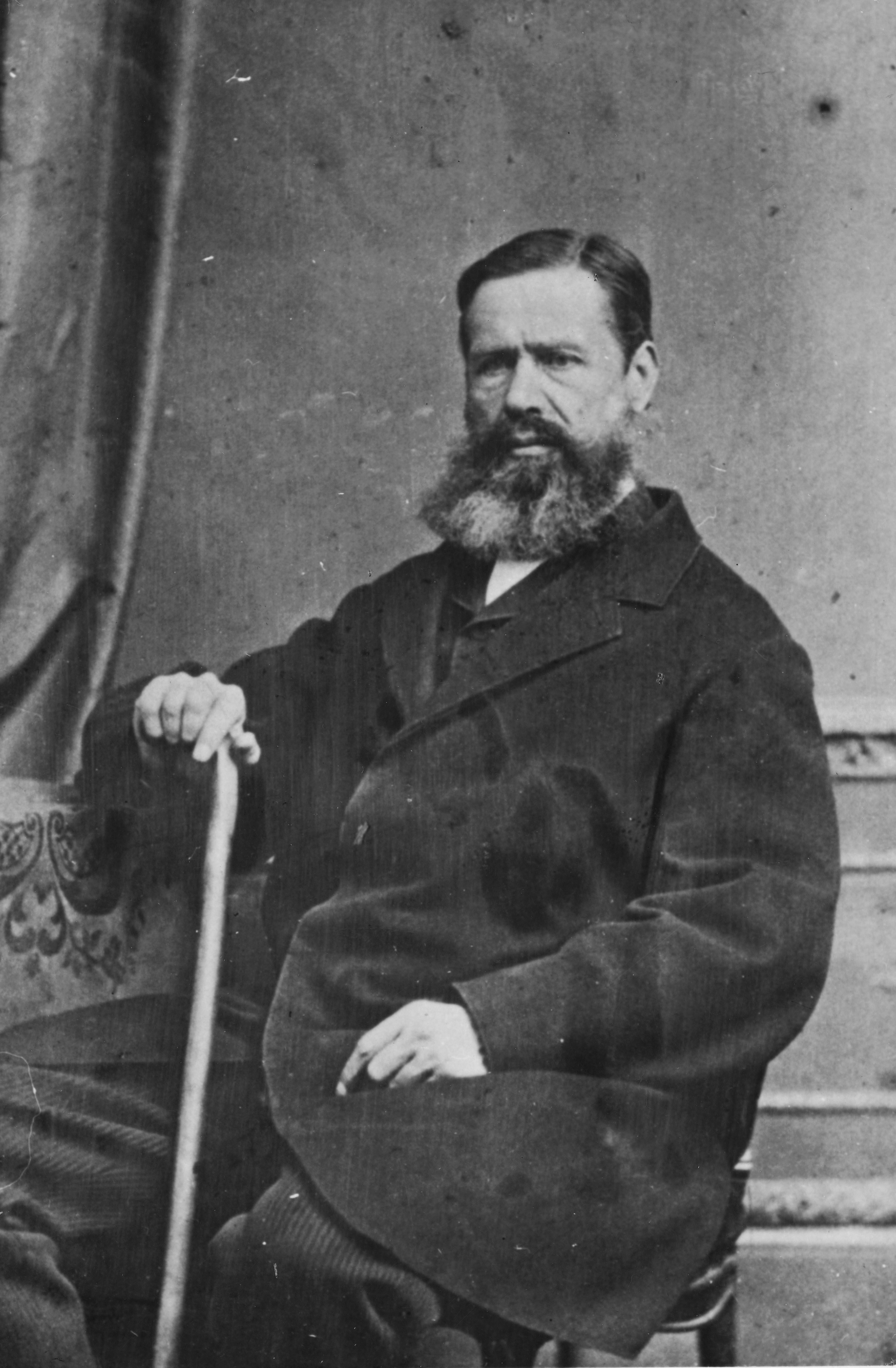 Seated portrait of Hugh Francis Carleton, photographed circa 1870s by an unidentified photographer. Shows a bearded man aged approximately 60. He wears a suit and overcoat, and holds a cane in one hand.